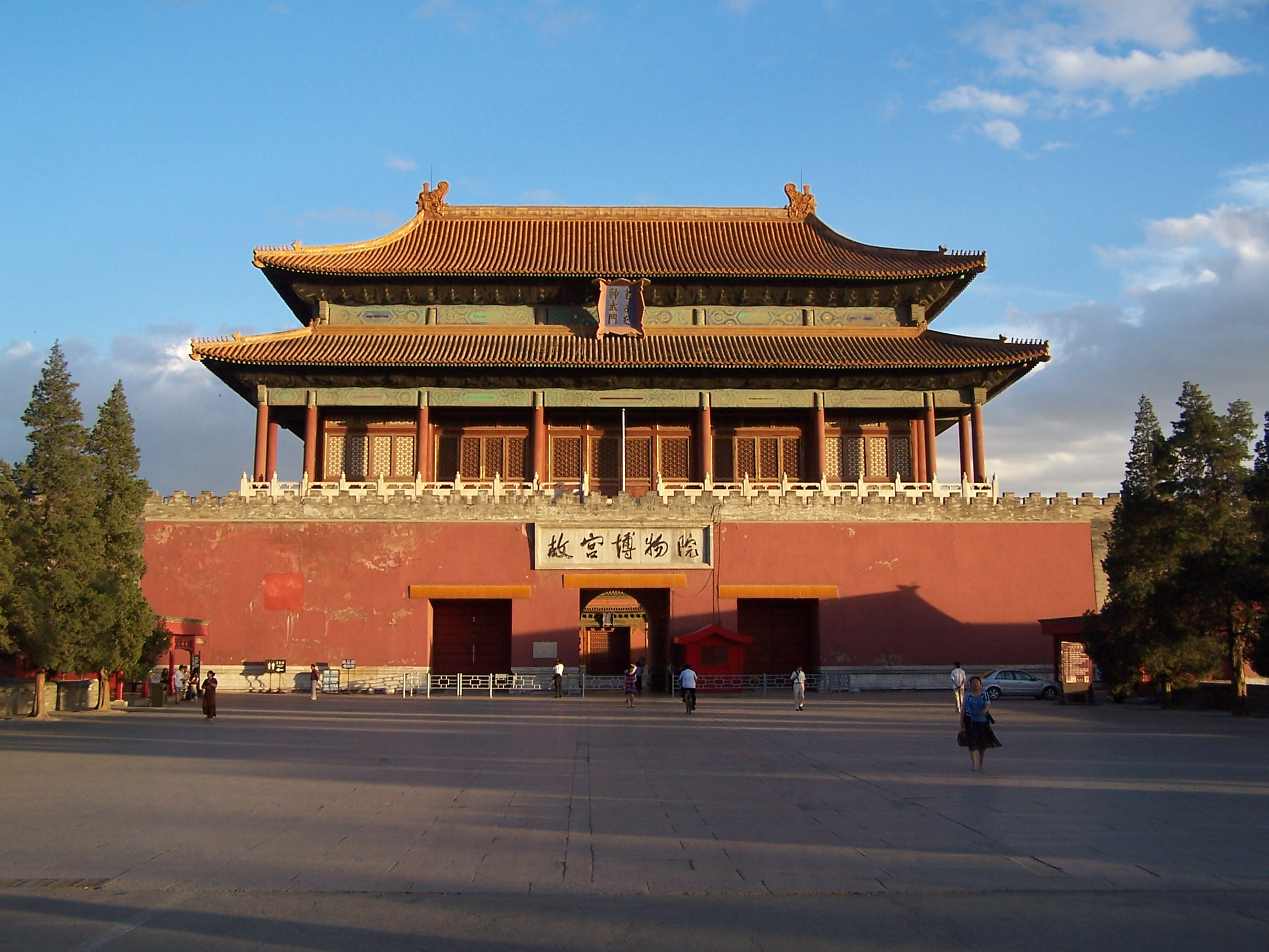 Shenwumen Gate (神武门) of Forbidden City, Beijing